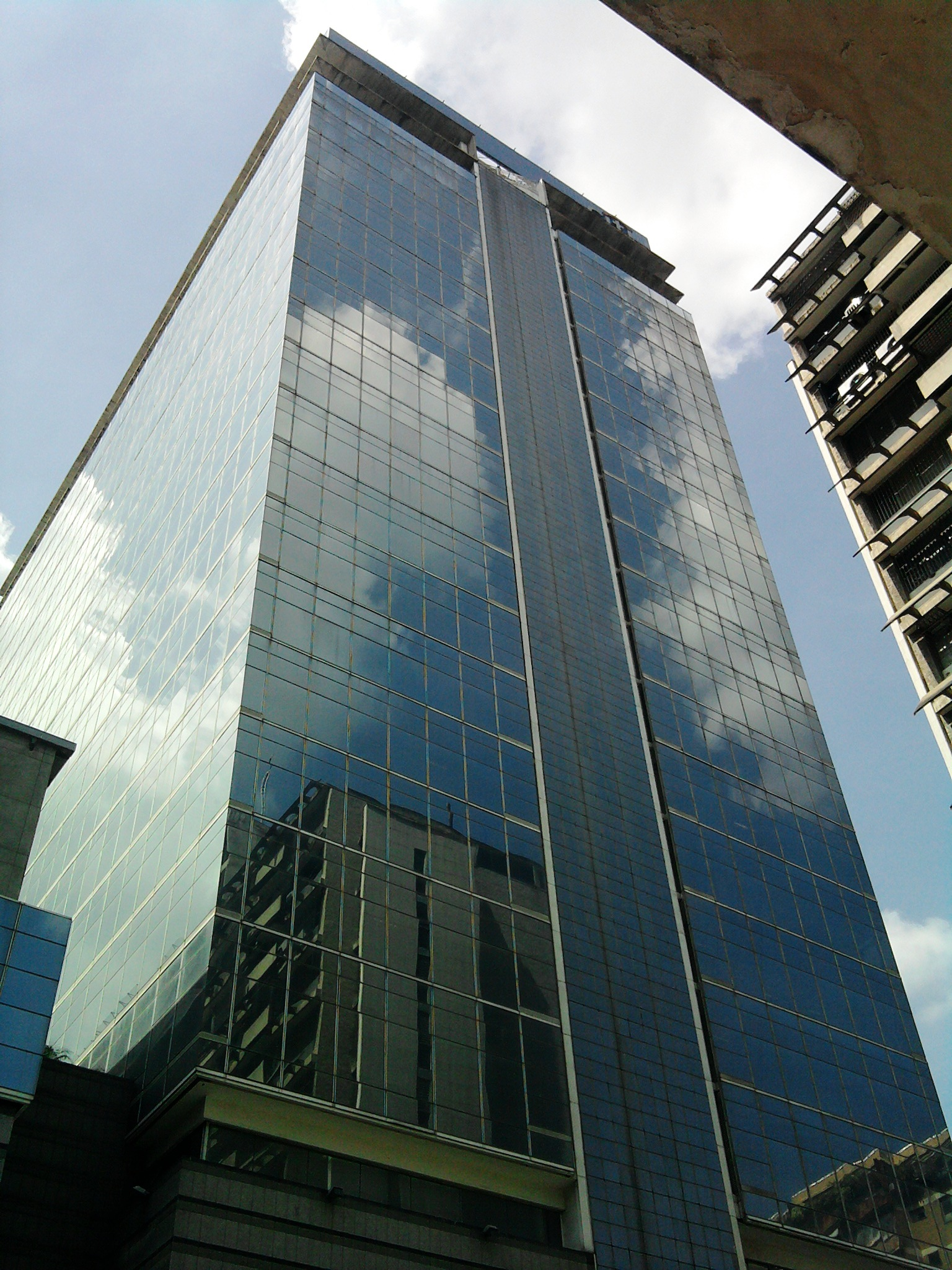 Torre Citibank, located in Caracas, Venezuela.